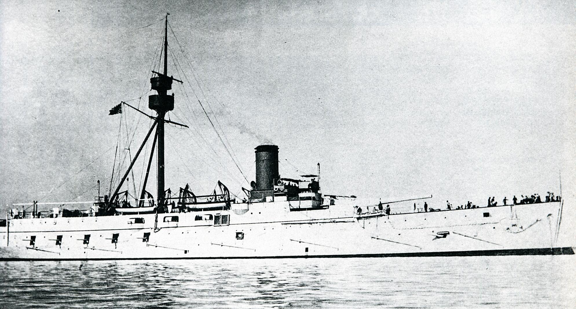 Japanese cruiser Itsukushima in 1893